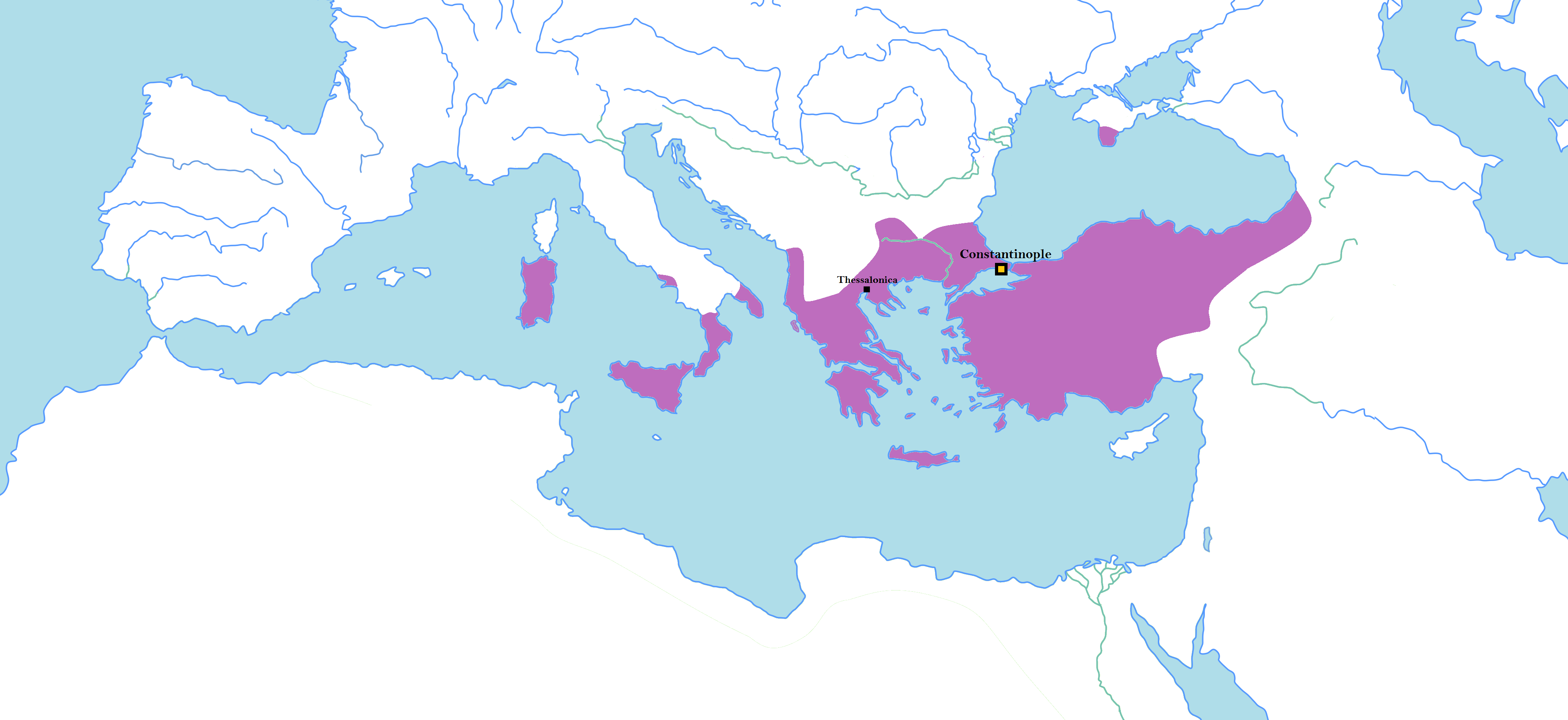 Map of the Byzantine Empire in 802 AD